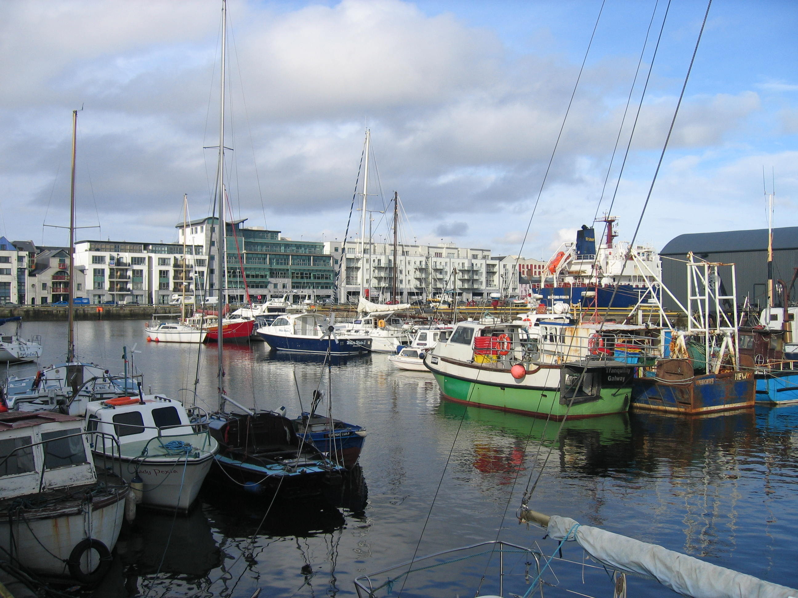 Galway Harbour 2007